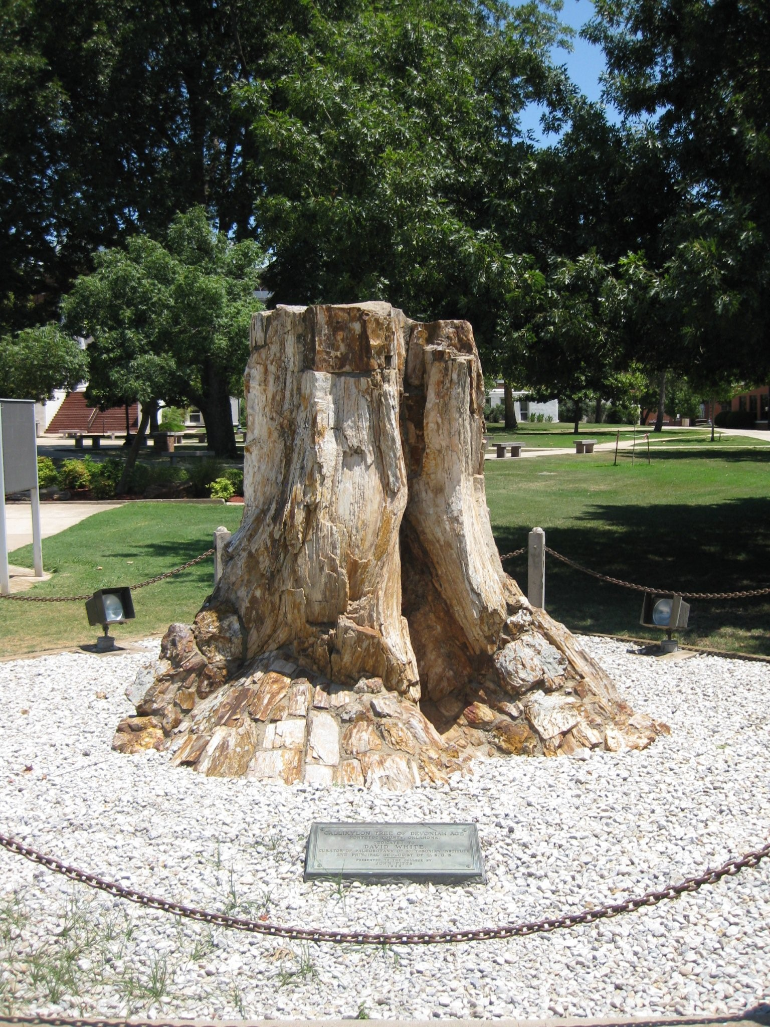 A picture of the Callixylon tree found on ECU's campus in Ada, Oklahoma.